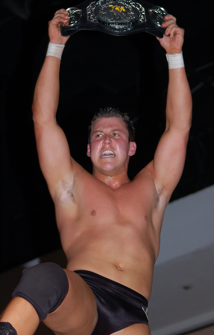 Photo I took of Brett DiBiase in Ft. Myers FL on 01/15/2010. He is holding the FCW Tag Team Championship.